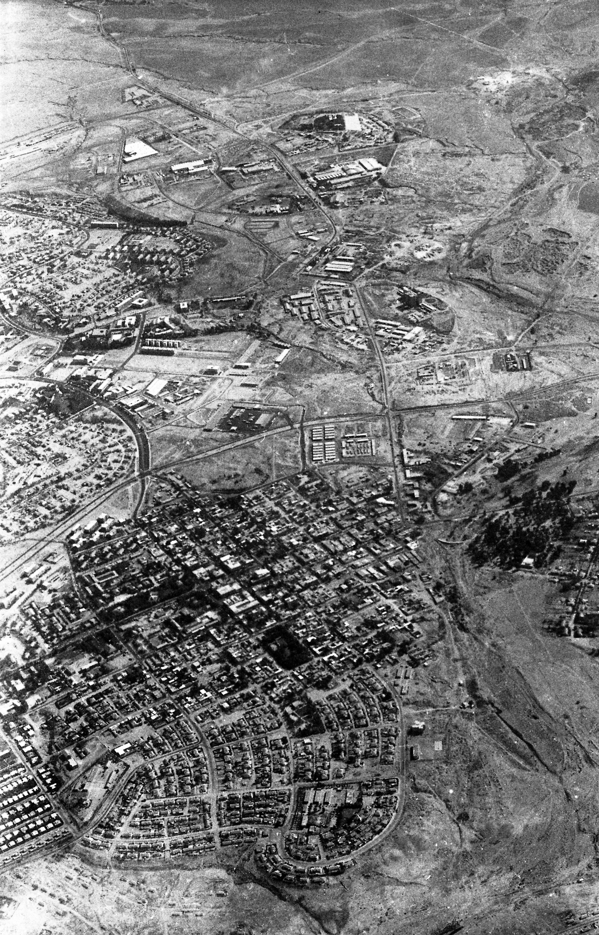 Aerial view of Beersheba, looking northwards.